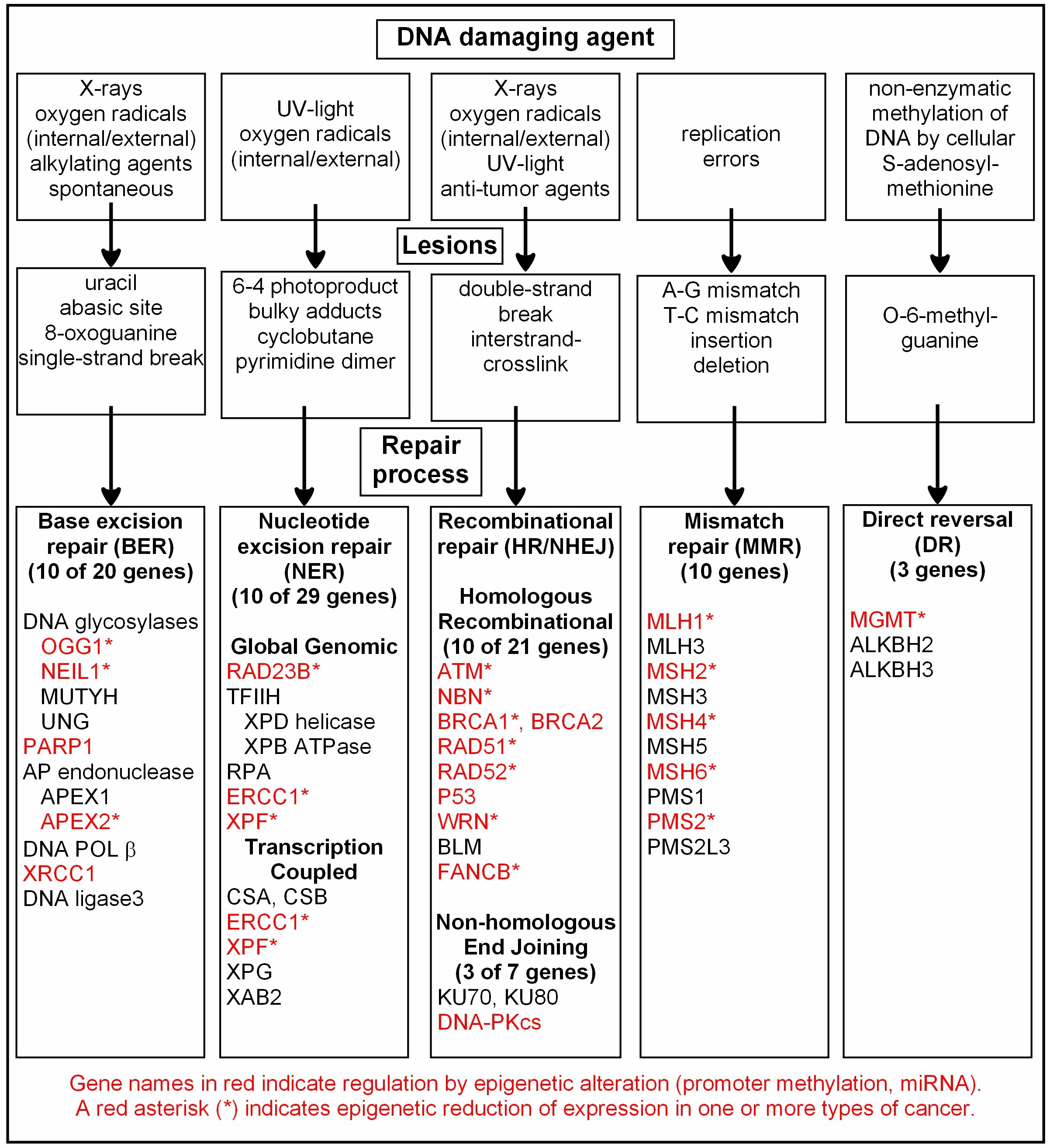 A chart of common DNA damaging agents, examples of lesions they cause in DNA, and 5 pathways used to repair these lesions. Also shown are many of the genes in these pathways, an indication of which genes are regulated epigenetically, and which of those epigenetically regulated genes have reduced expression in various cancers.